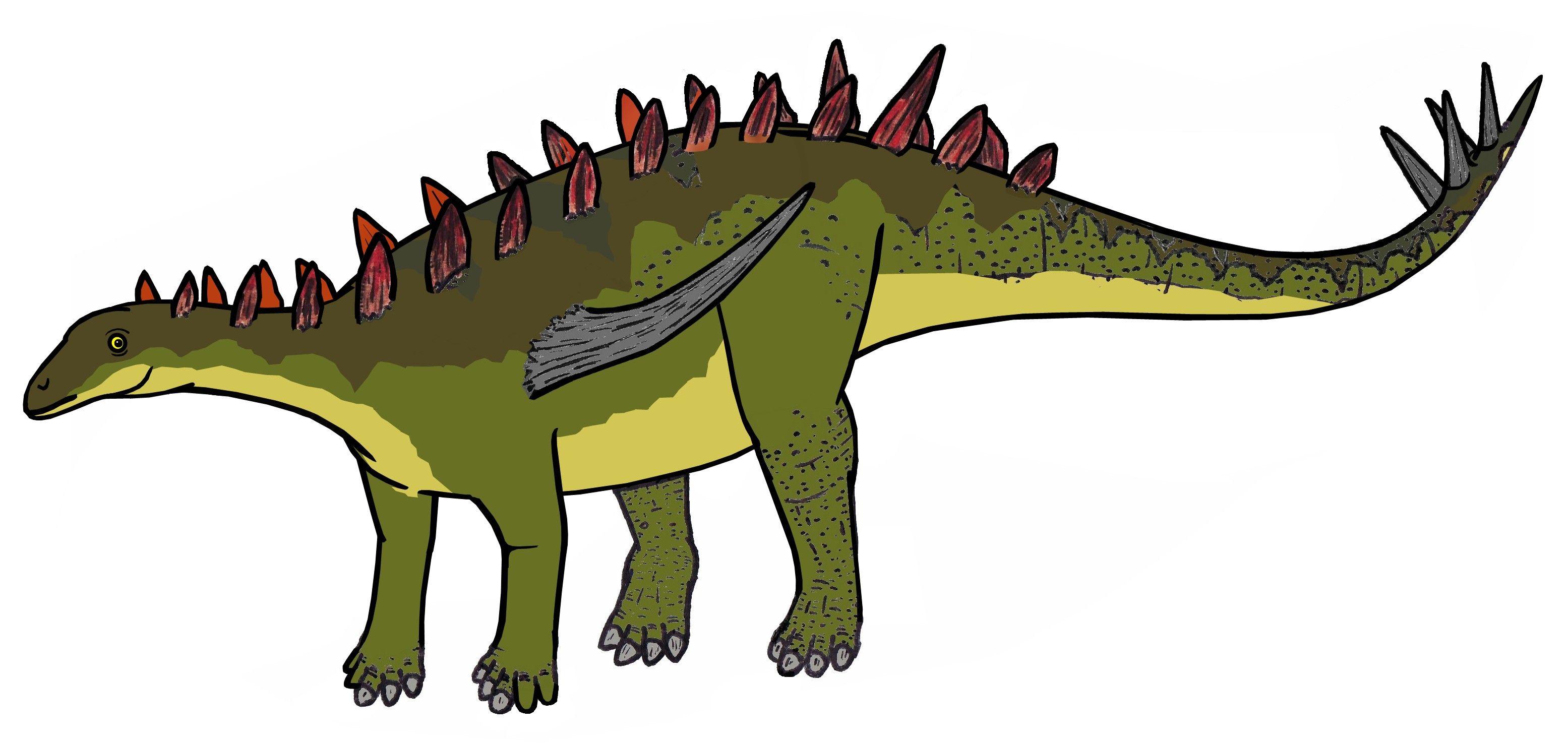 Gigantspinosaurus was a planteating dinosaur ( stegosaur ) from China. It lived in the jurassic period. This restoration is based on a skeleton you can see at the site Archosaurmusings by Dave Hone, to see the mounted skeleton.